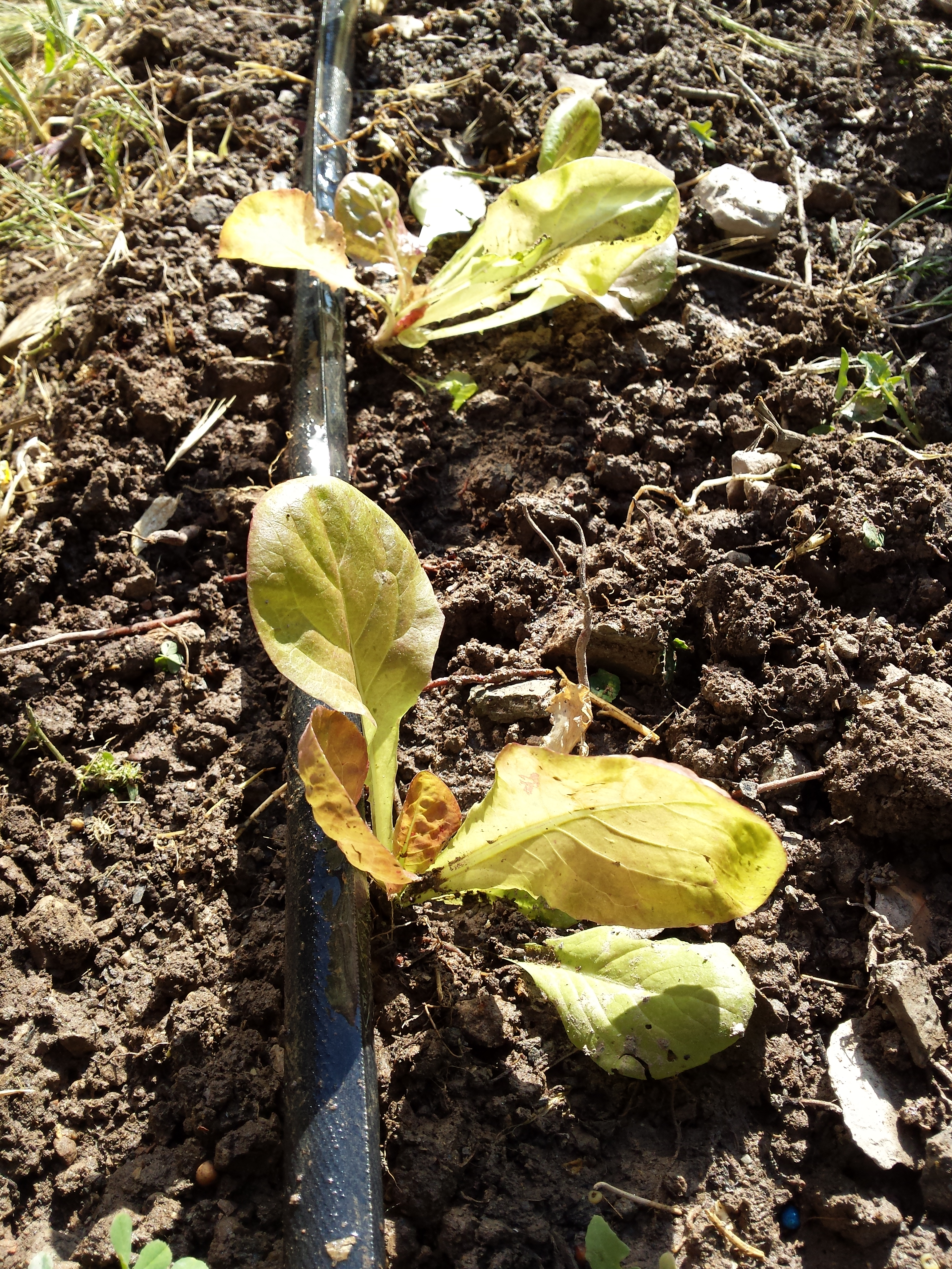 Exudative irrigation,lettuces 4 season cultivar. Castelltallat, Catalonia.